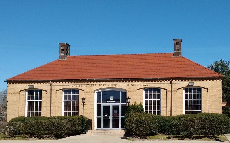 Constructed by Christy and Basket Construction Company of San Antonio. Completed in August 1941.